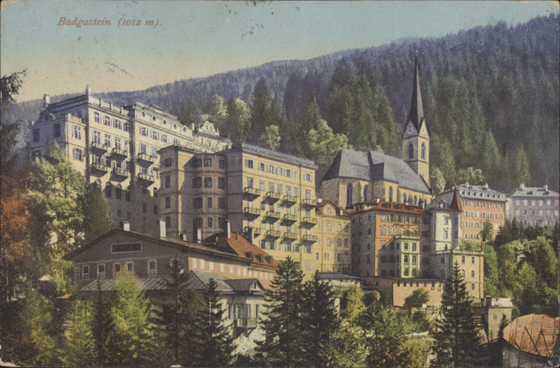 Badgastein